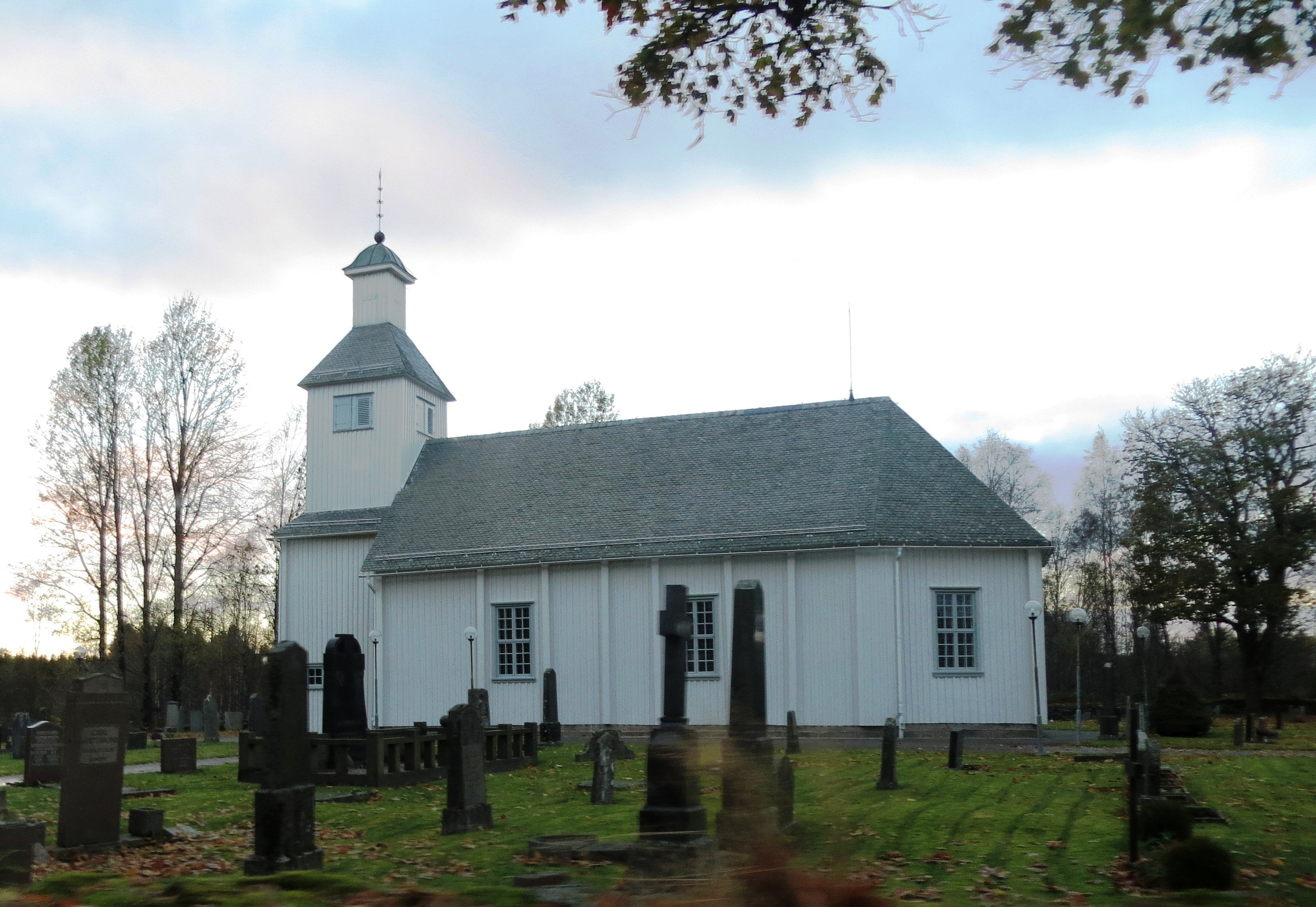 Töftedal Parish church in Dals-Ed municipality, just across the border from Norway (Halden/Kornsjø).